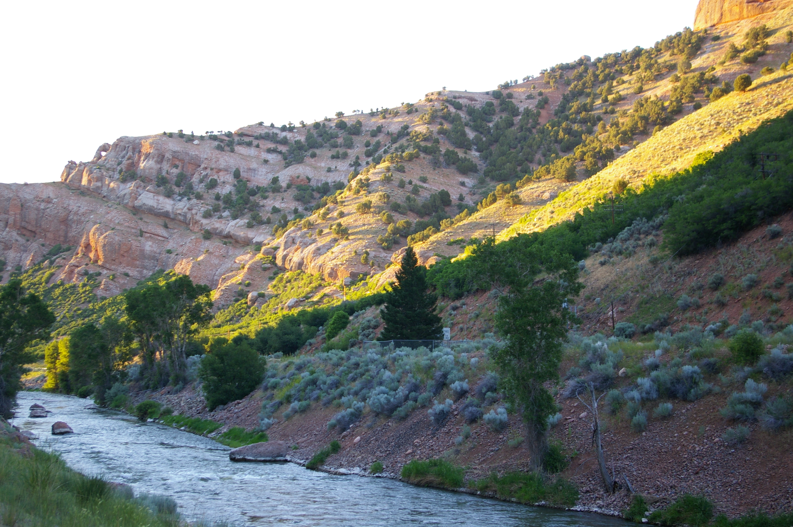 The Thousand Mile Tree in Weber Canyon, Utah — fenced and with a black and white sign honoring the accomplishment. The tree honors the workers of the Union Pacific Railroad completing 1000 miles (1600 km) of the First Transcontinental Railroad. This is not the original tree, but a replacement one that was planted in the 20th-century. Taken from the shoulder of Interstate 84